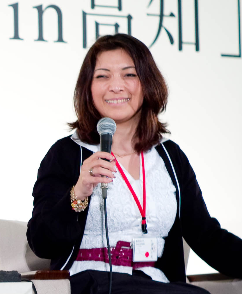 Ken'ichirō Mogi, Senior Researcher of the Sony Computer Science Laboratories, Inc., talked with Kazuyo Katsuma, Certified Public Accountant, in Kōchi Prefecture on November 29, 2009.